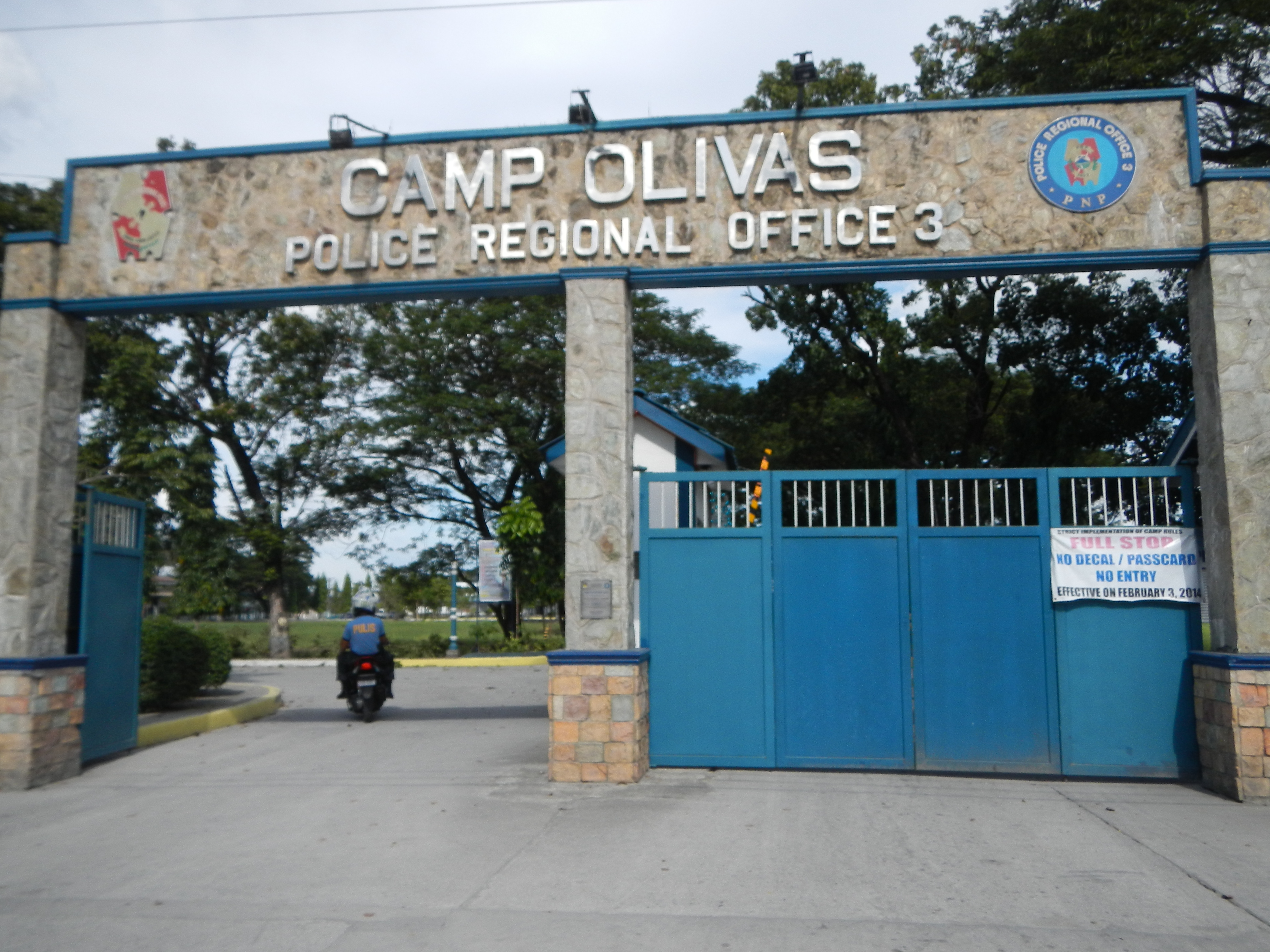 Camp Olivas Philippine National Police named after Captain Julian Olivas Police Regional Office 3 Founded 1917 Camp Olivas along MacArthur Highway in Barangay San Nicolas, San Fernando, Pampanga.